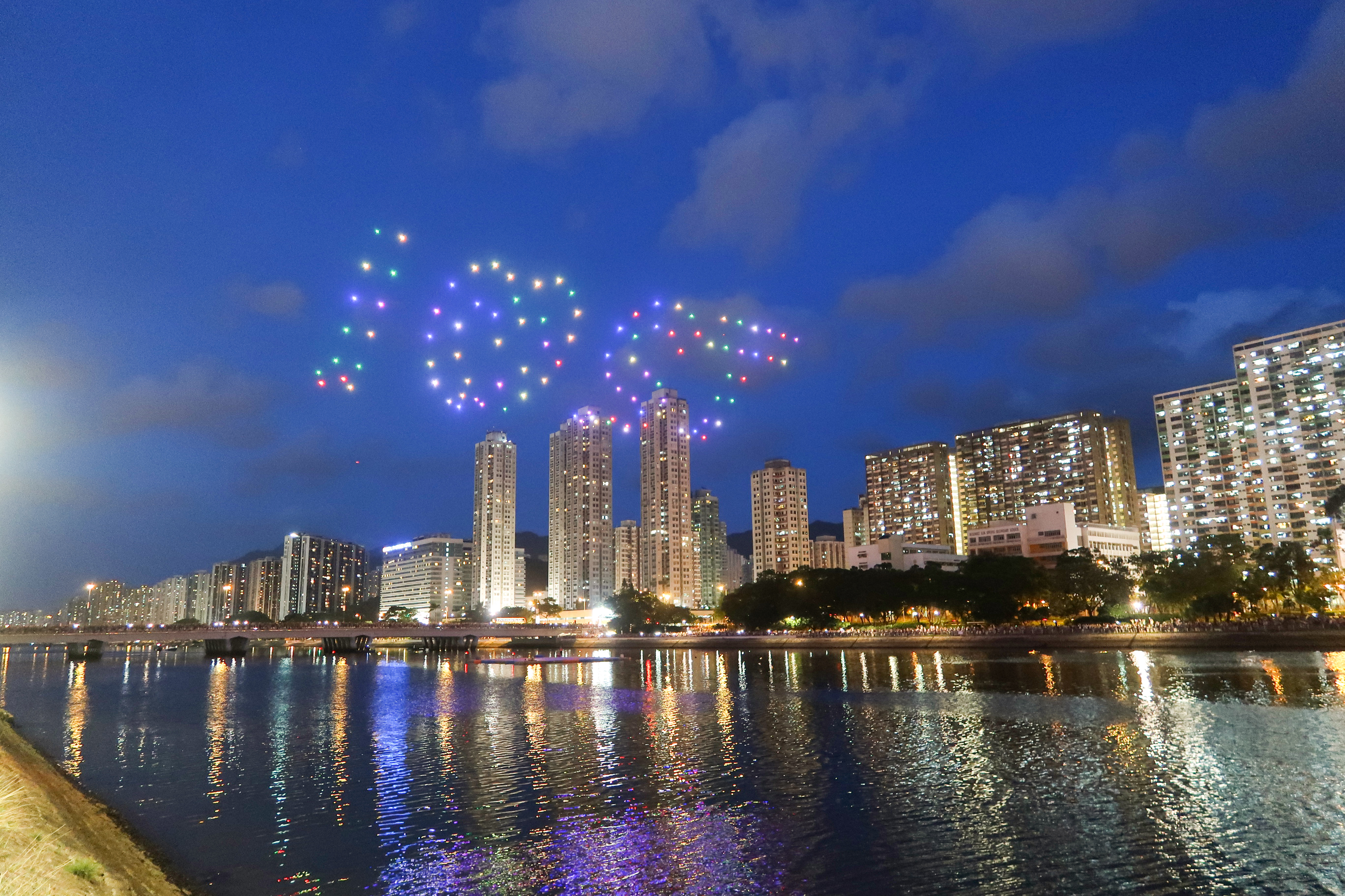 Shing Mun River Drone